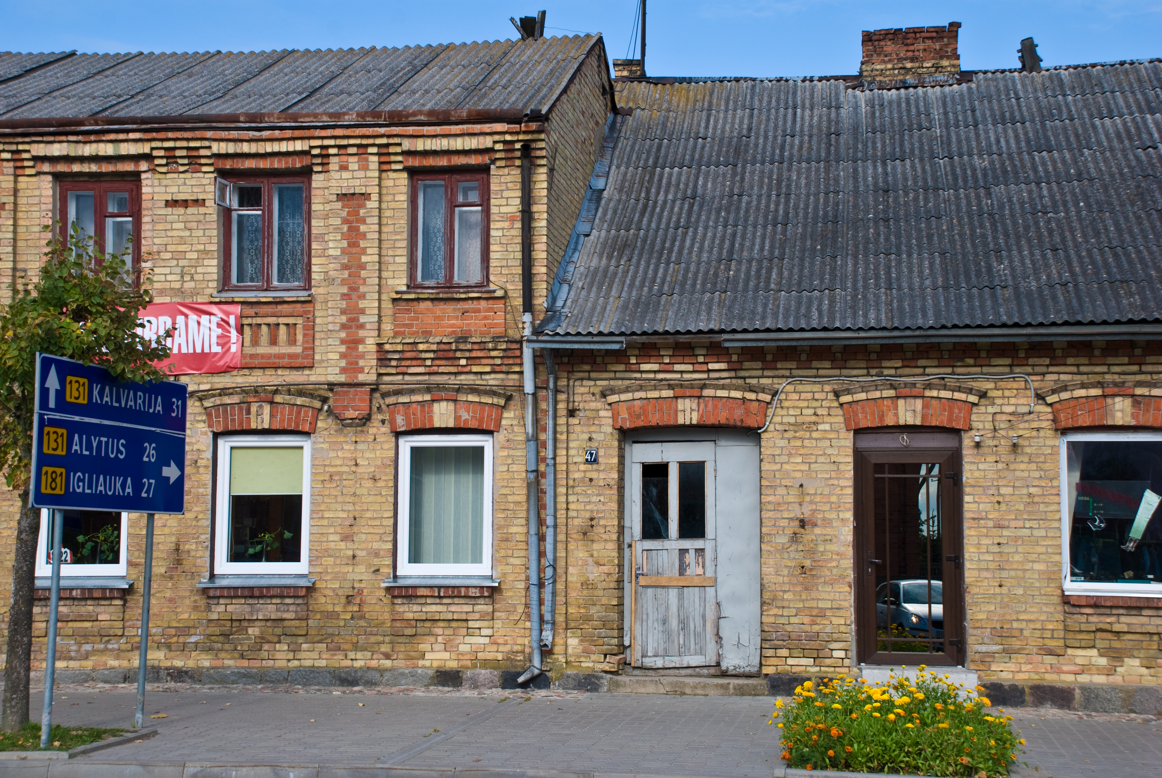 Simnas, Lihuania